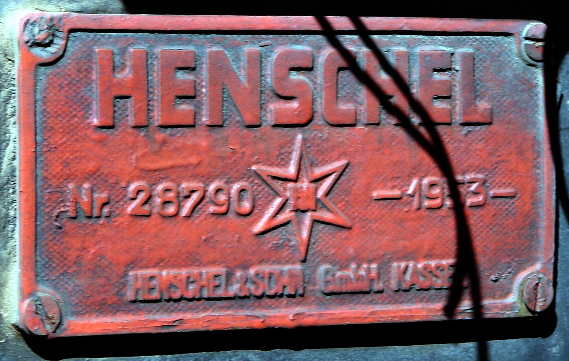 SAR Class 25 3480 (4-8-4) Builder's Number: Henschel 28790 Type: Condensing tender builder's plate Location: Beaconsfield, Kimberley, Northern Cape